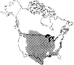 Ambystoma tigrinum (tiger salamander) range map